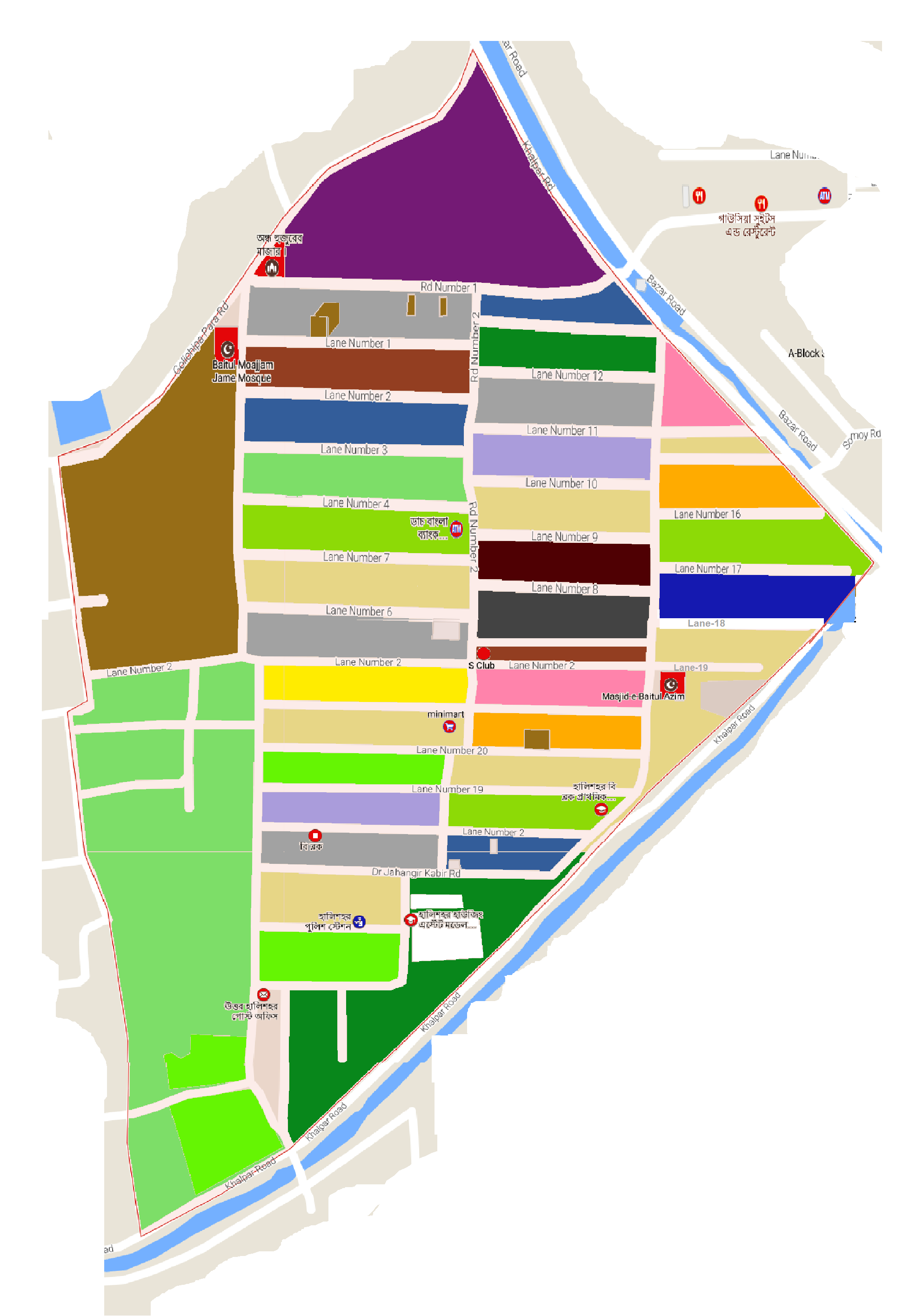 of municipality Halishahar B Block Chittagong District, Chittagong Division, Bangladesh